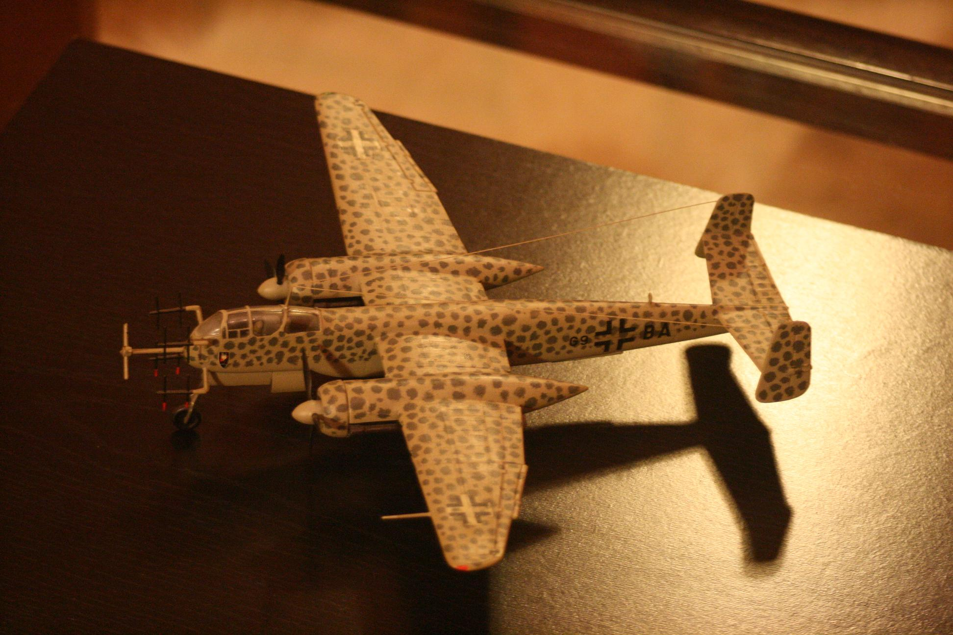 Heinkel He 219 Uhu A-5/R1, 1:72 Revell plastic model (4116-0389) with an unrealistic radar configuration.